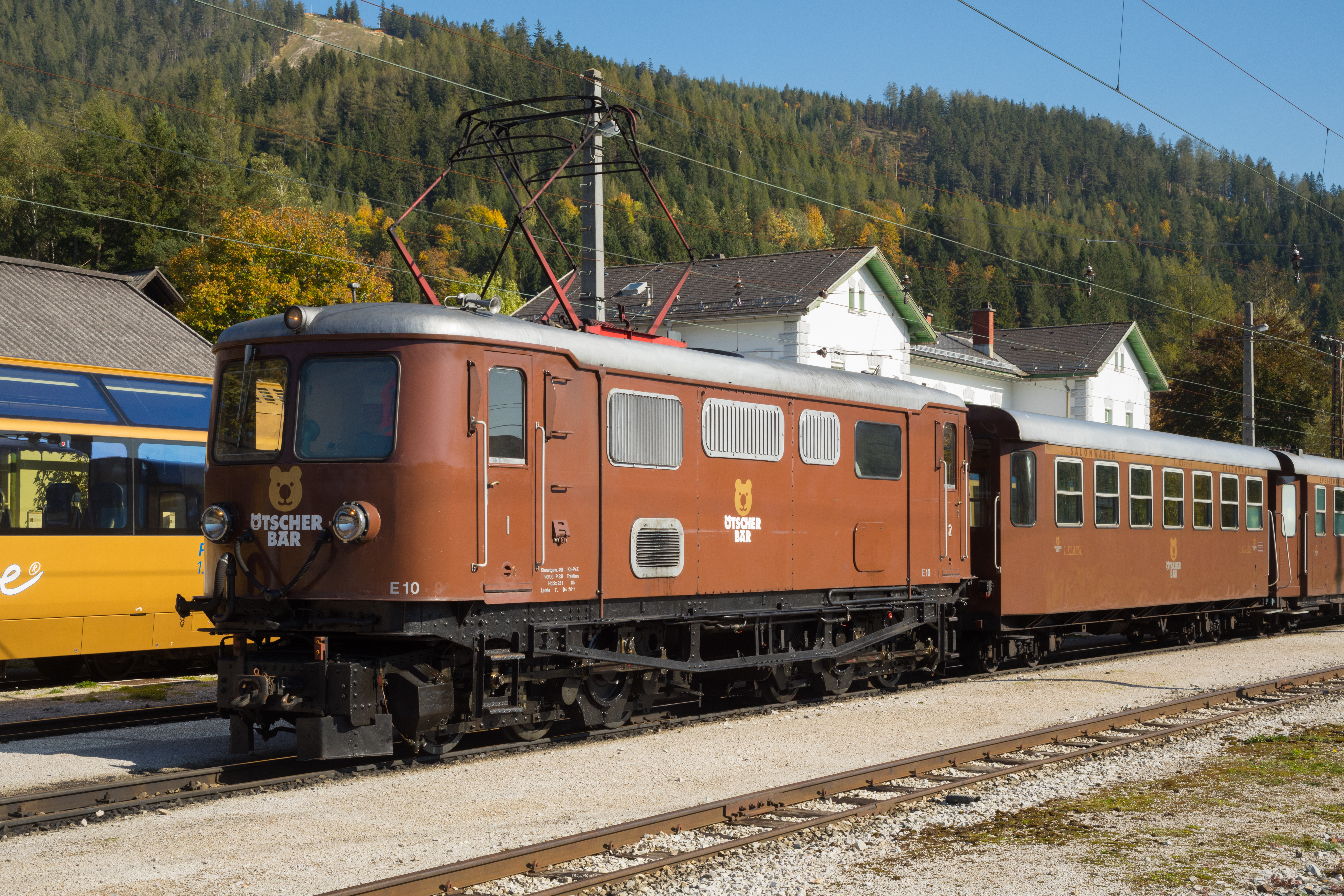 Engine 1099-10 of Mariazeller Bahn at the station of Mariazell.